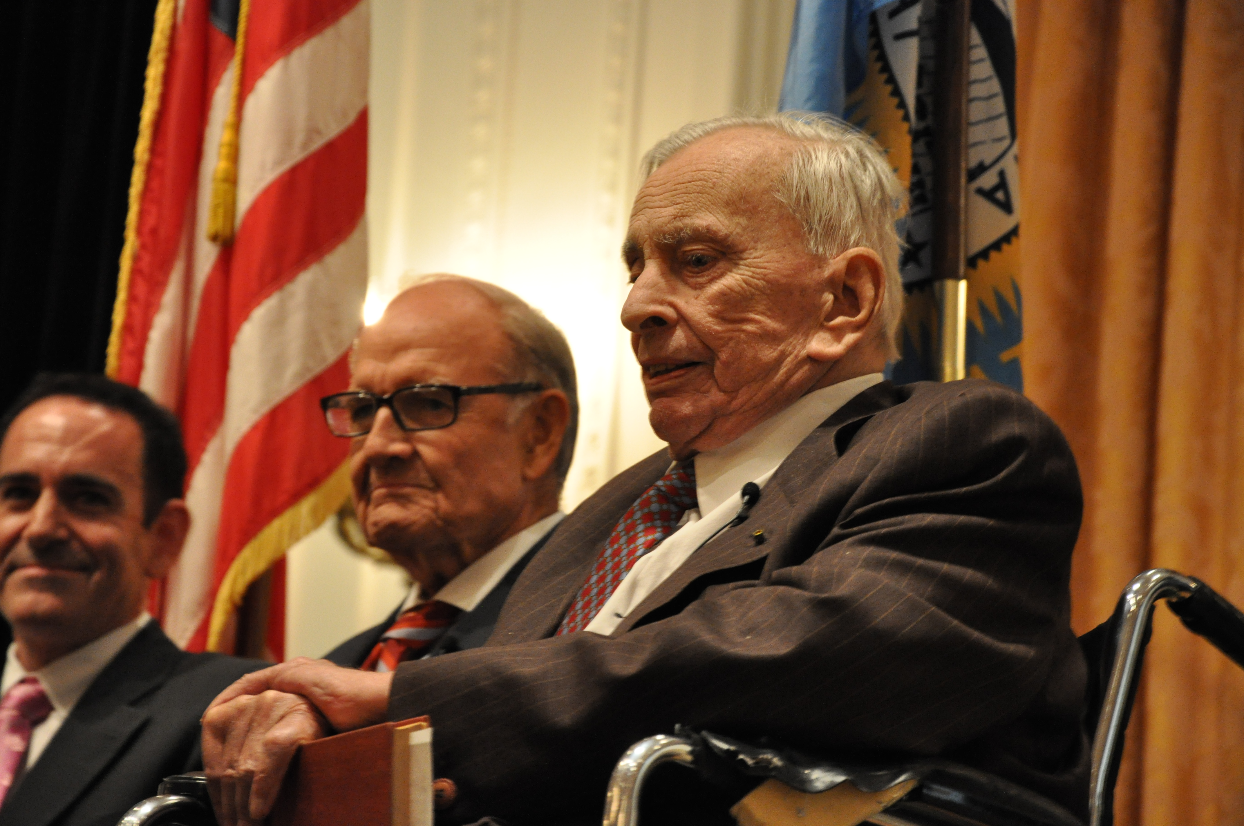 Gore Vidal and Senator George McGovern at the Richard M. Nixon Library and Museum during McGovern book tour